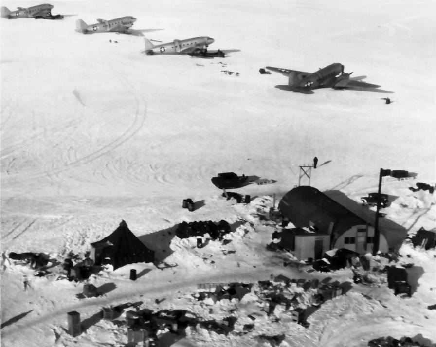 U.S. Navy Douglas R4D Skytrain aircraft lined up on the ice at the Little America IV station in Antarctica during Operation Highjump.